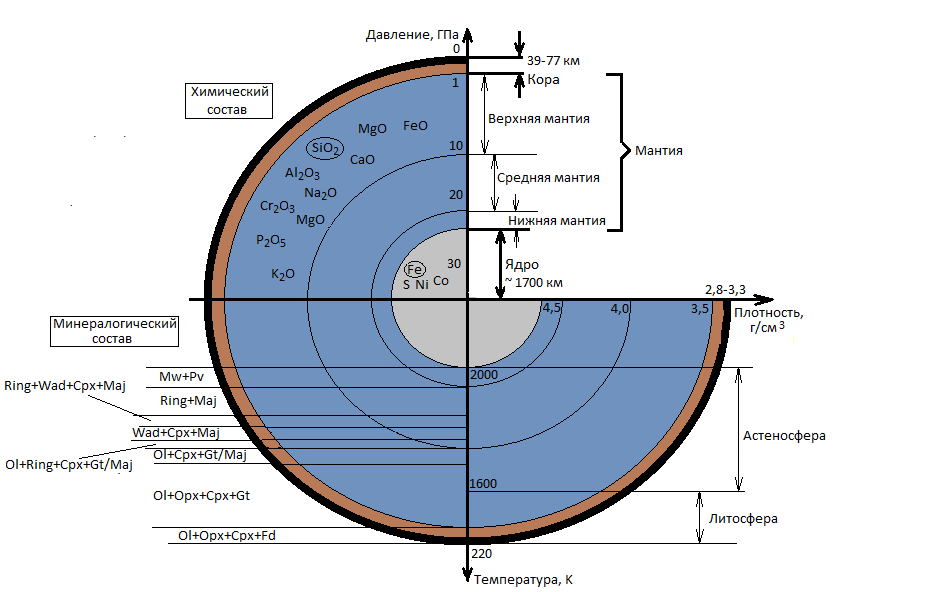 Composition and internal structure of Mars. Adapted from the paper Mars: a small terrestrial planet.